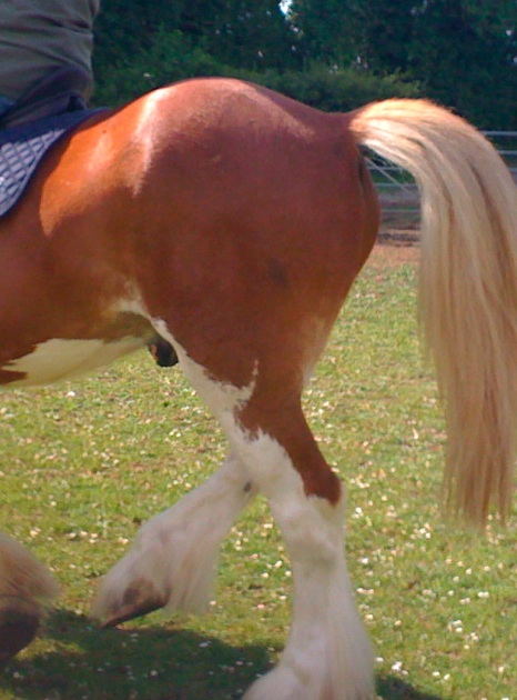 Sabino type leg and belly markings on flaxen chestnut horse